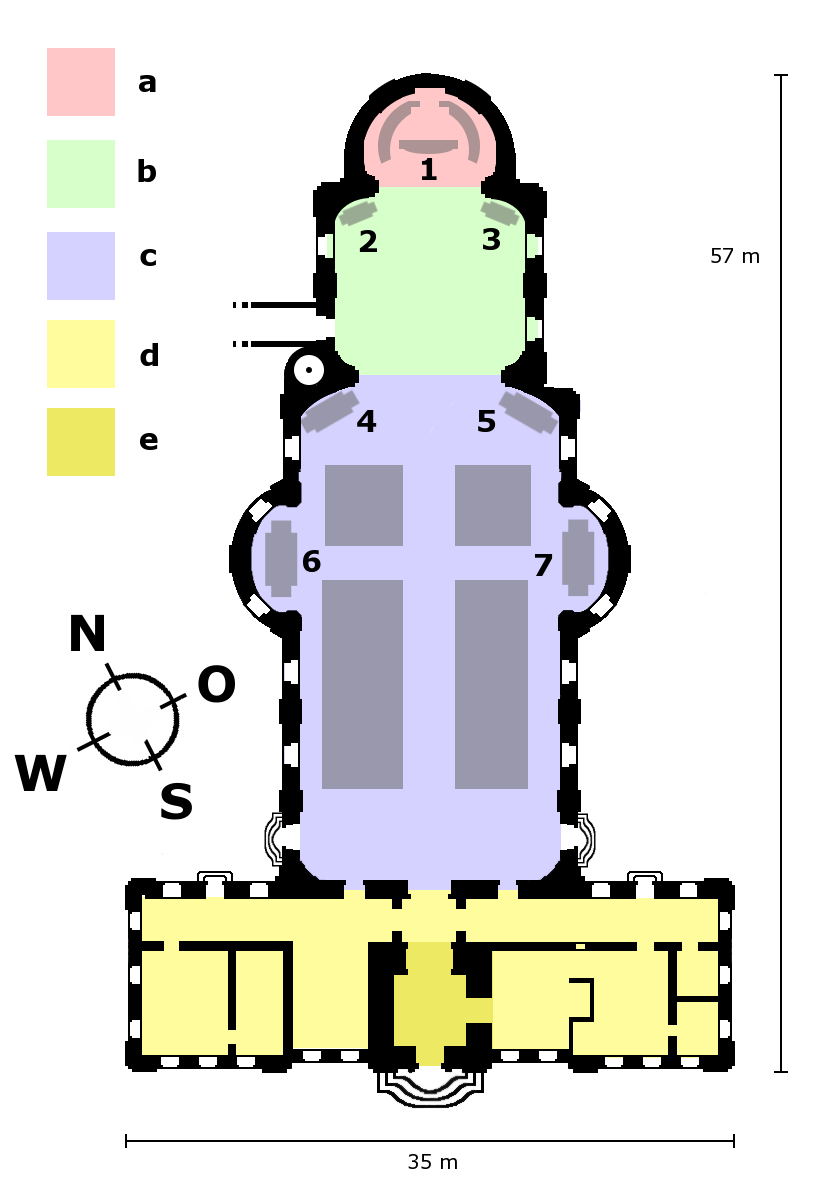 Floor plan of pilgrimage church at Birnau.